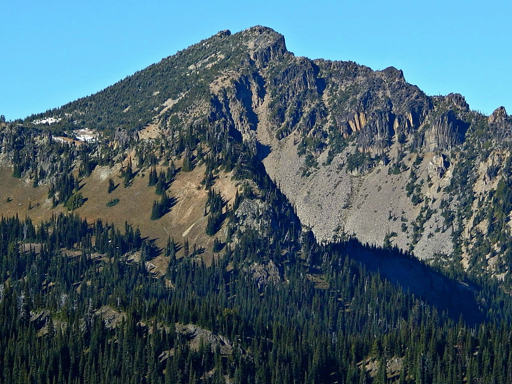 The Palisades peak in Mount Rainier National Park seen from Sunrise Point. October 2016